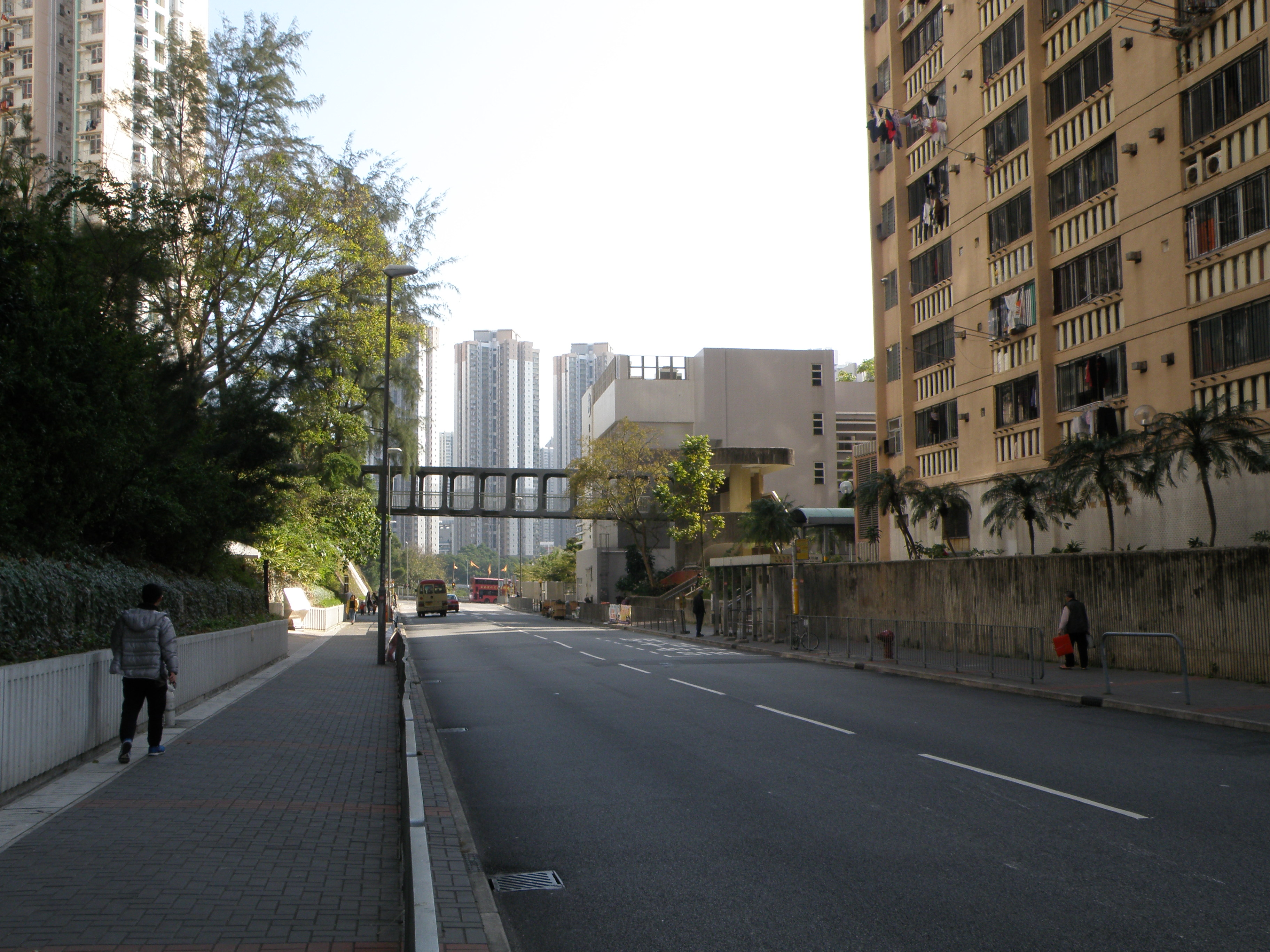 Sau Ming Road in Sau Mau Ping, Hong Kong.